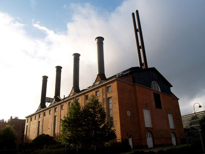 Kedelhuset (the Boilerhouse) at the former Carlsberg Brewery site in Copenhagen, Denmark